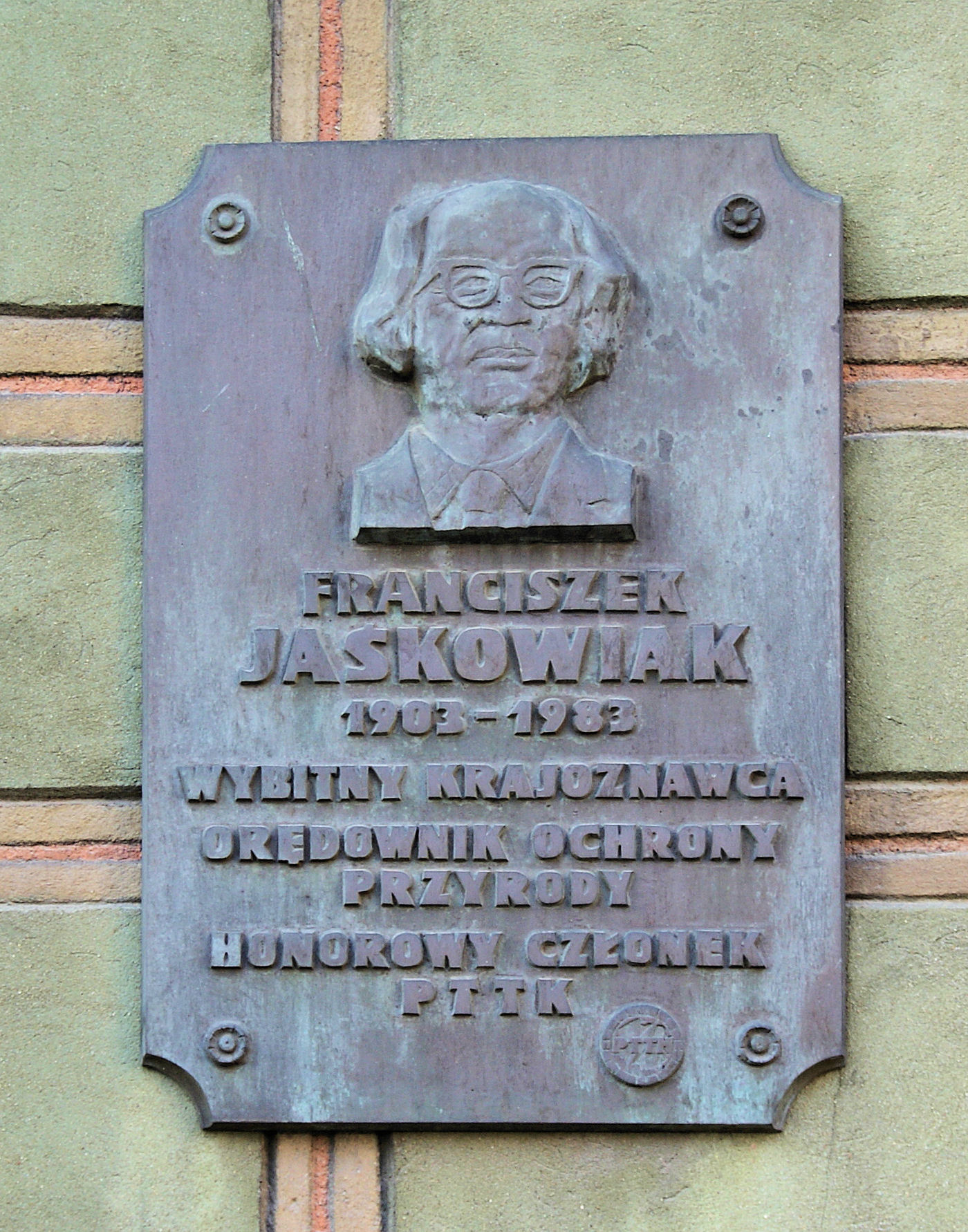 Franciszek Jaśkowiak, Poznań, Poland